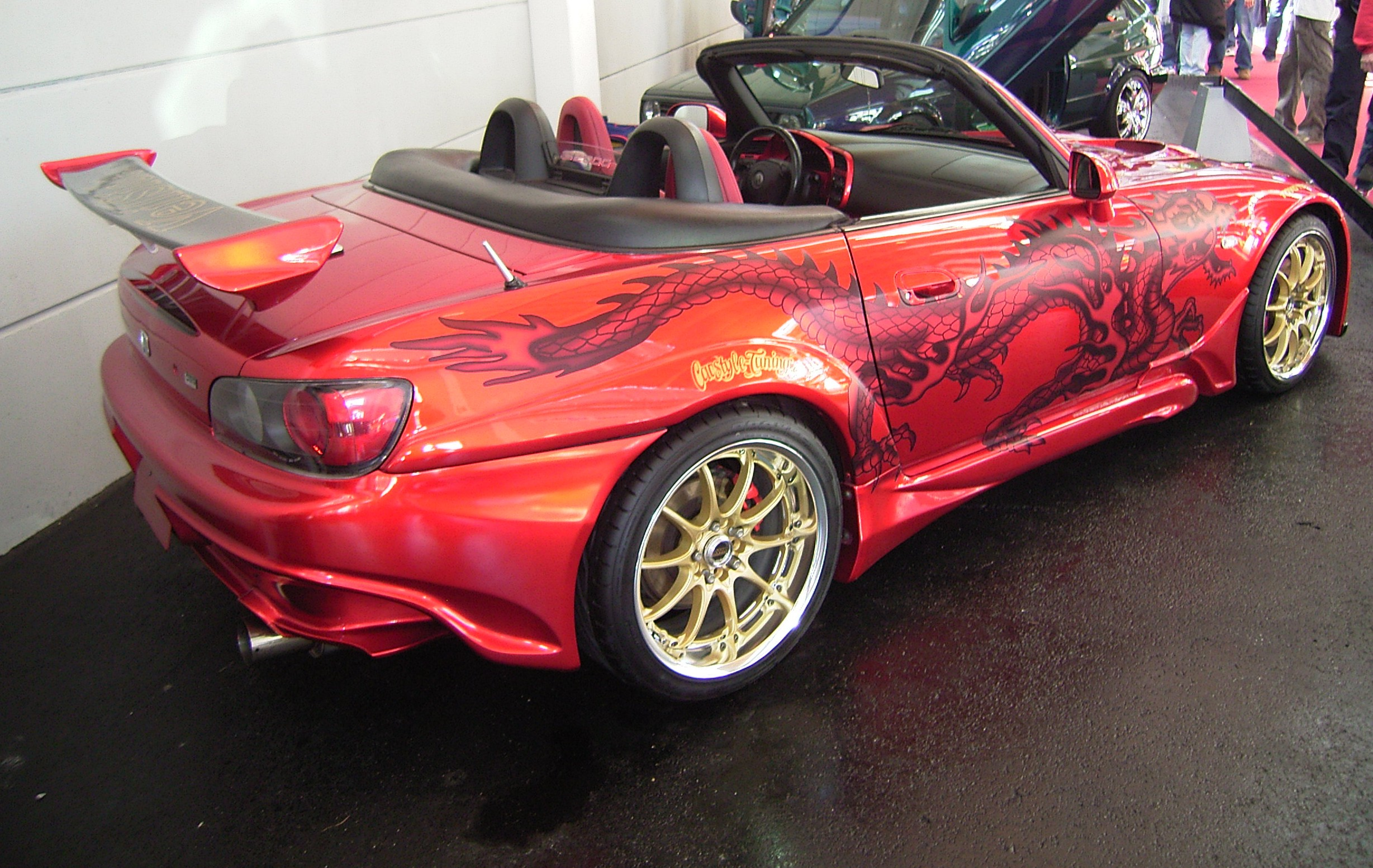 Honda S2000, Front-Left View